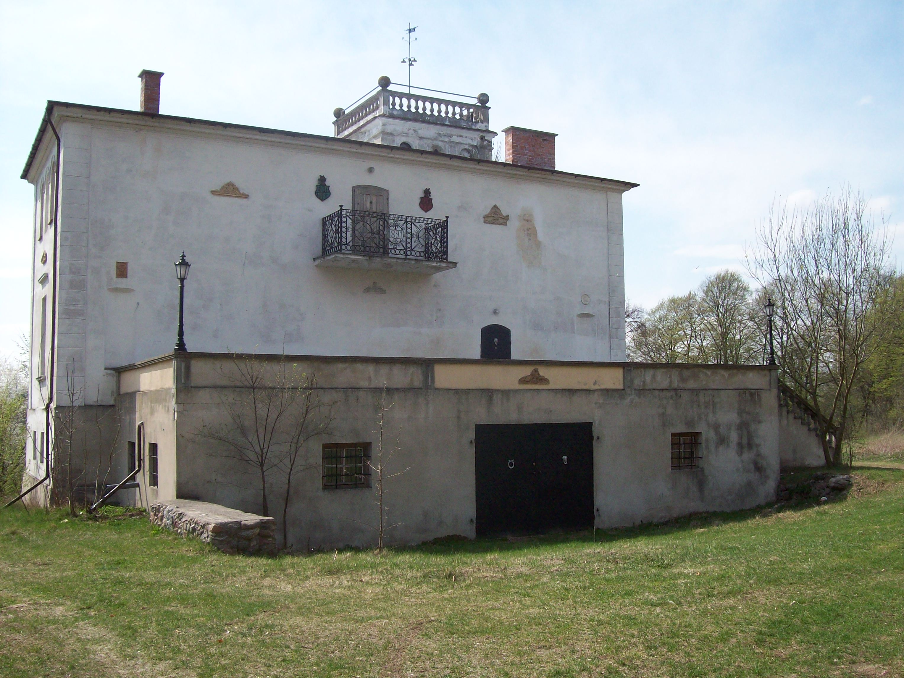 Manor in Swiesz PL April 2012